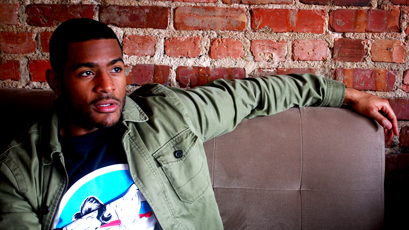 TFox at "Bin22 at Betsy's" in Richmond, VA